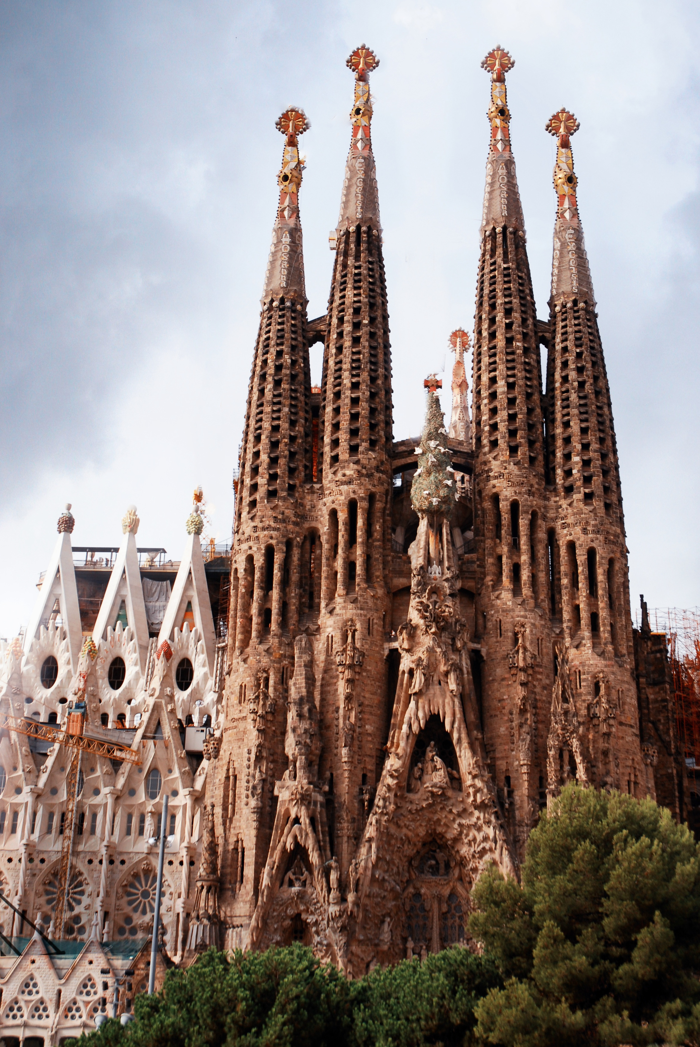 View of Nativity Façade of Basilica and Expiatory Church of the Holy Family (Basí­lica i Temple Expiatori de la Sagrada Família) (UNESCO World Heritage Site). Barcelona, Catalonia, Spain.